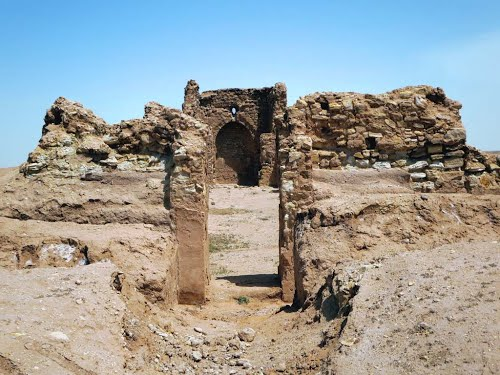 Al-Aqiser Church in Karbala Daseert